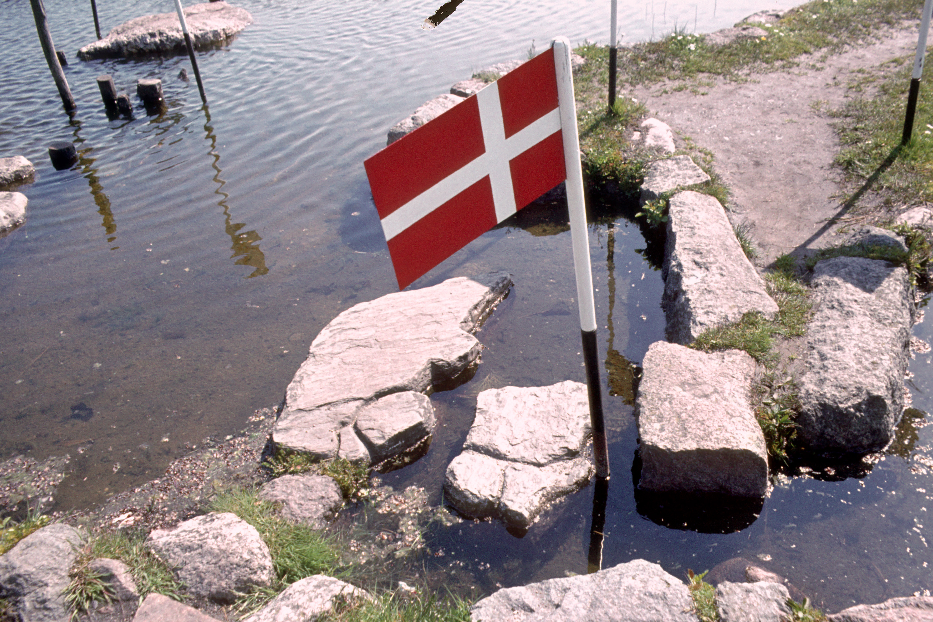 World map in the Klejtrup lake (Denmark and the southern part of Scandinavia)